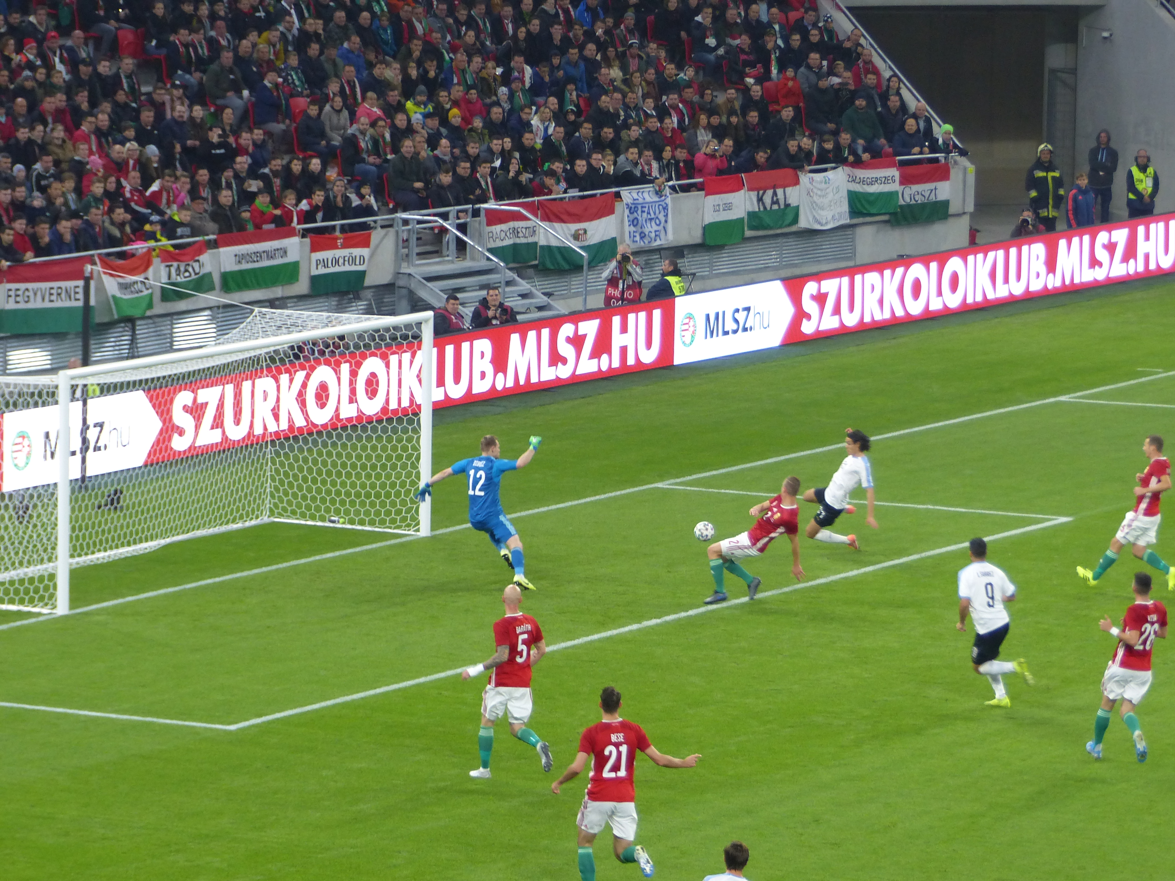 Hungary - Uruguay 0-1 (Cavani). 2019-11-15 19:19:26, Puskás Aréna.